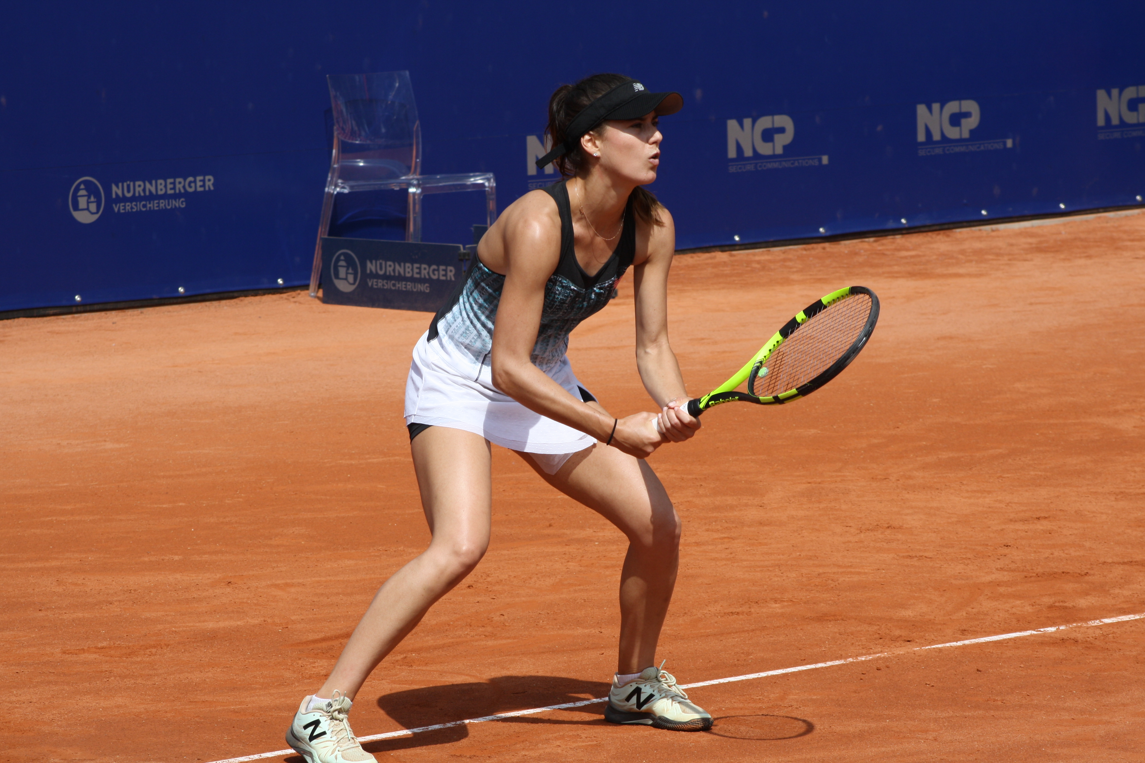 Sorana Cîrstea, May 2018